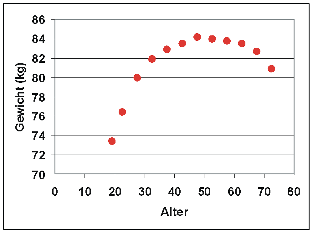 Dipserssion grafic of weight-age. Source of datas: Statistisches Bundesamt, Wiesbaden, 2004.